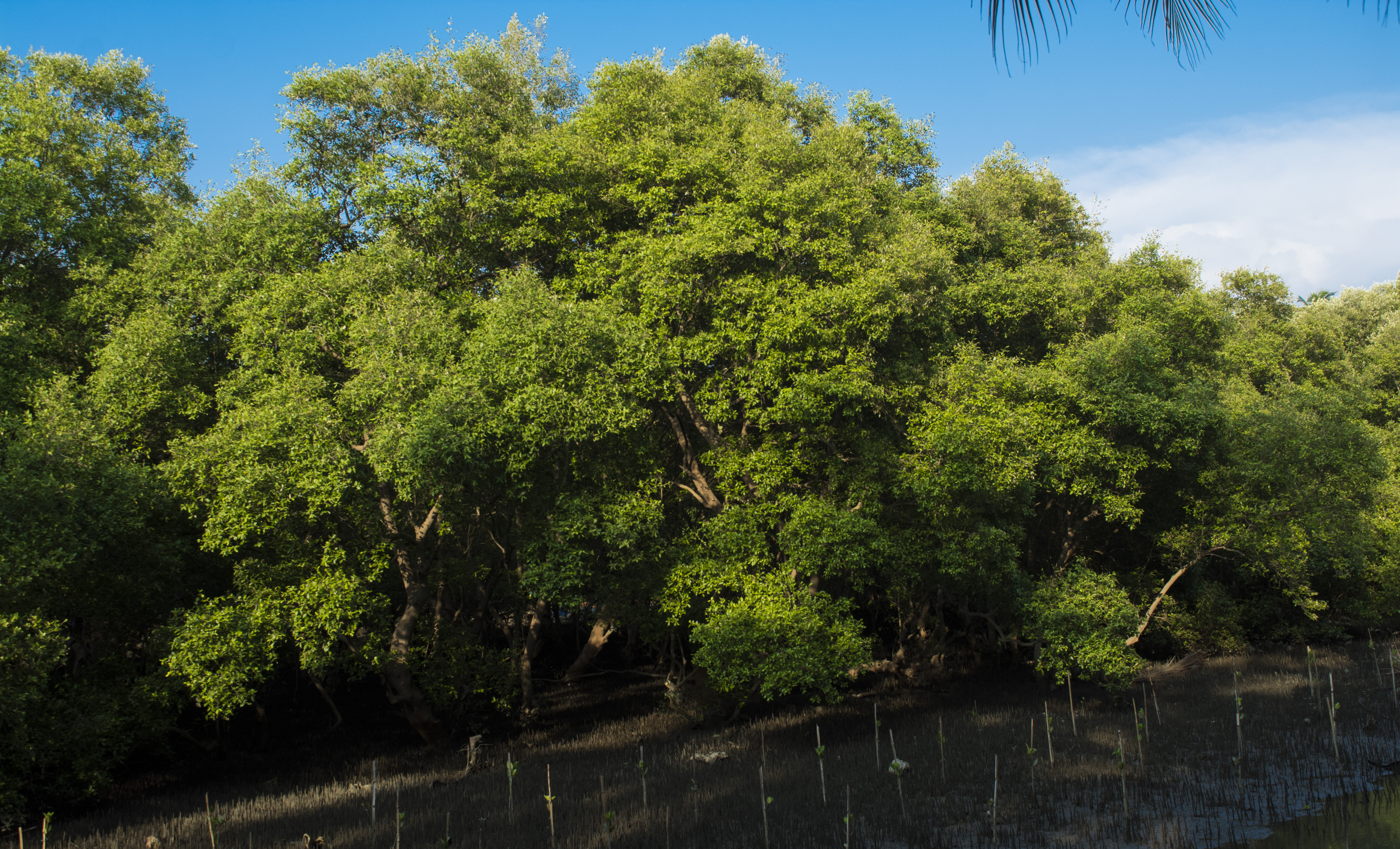 Mangrove Reserve Forest at Muzhappilangad